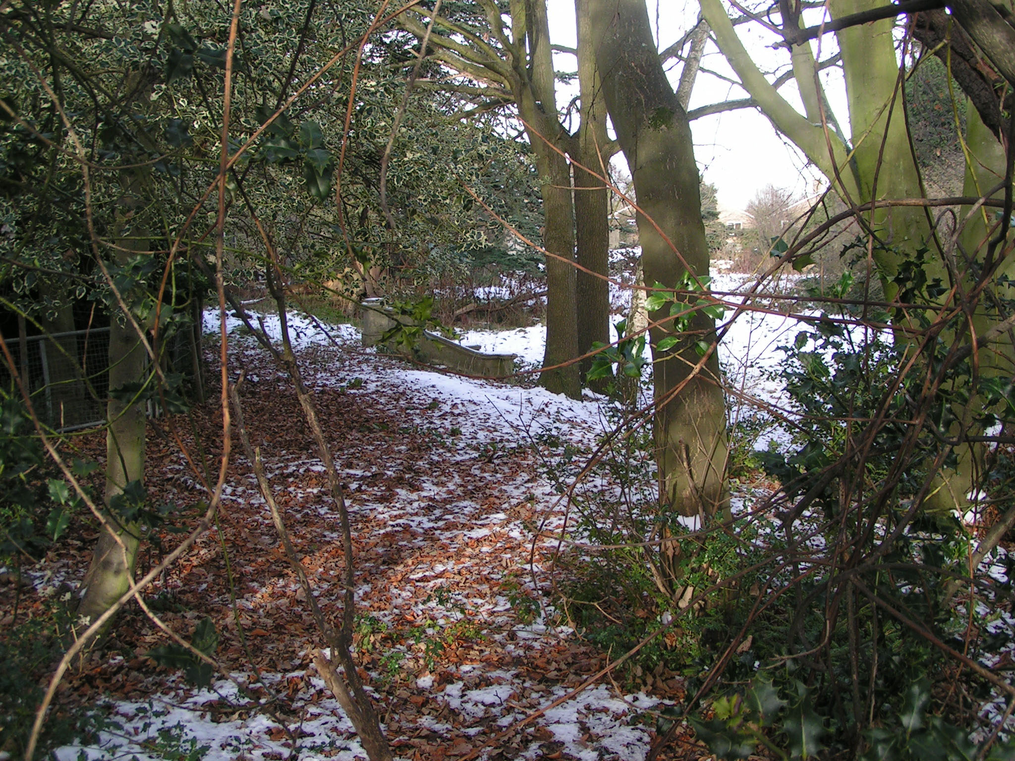 Garden of Beltwood House